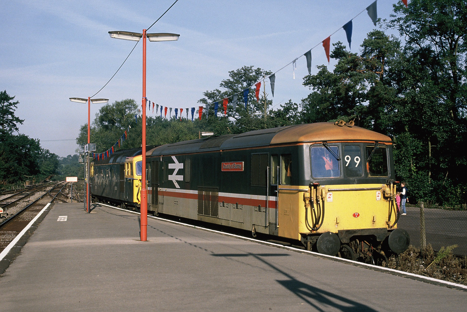 On 1st October 1988, Network SouthEast organised the 100th Birthday celebrations of the Edenbridge - Eridge line. Class 33 and Class 73 73131 "County of Surrey" on display at Eridge railway station.